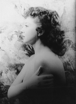 Beverly Sills, American opera singer Portrait of Leontyne Price, Porgy & Bess